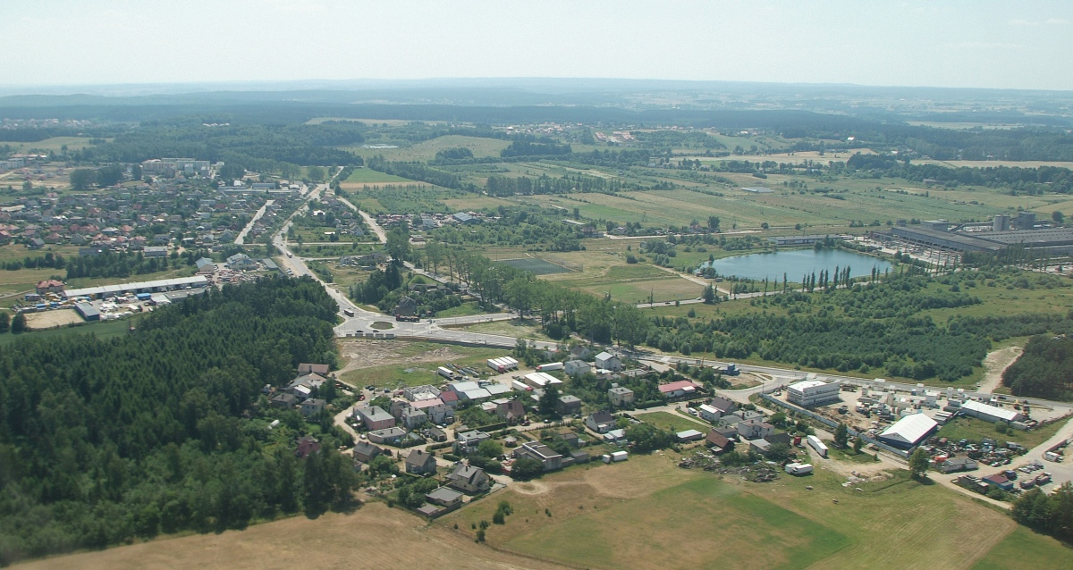 Gdańsk Kokoszki - streetcrossing "Nowatorów/Budowlanych".